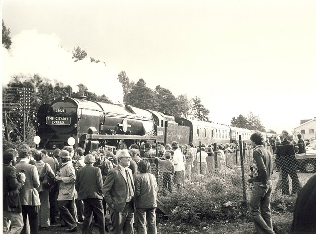 The Citadel Express at Armathwaite railway station Original description: The Citadel Express This train, which was steam hauled from York to Carlisle and back, is shown stopped at Armathwaite for photographs. The photograph was taken at 17.04 on Saturday 23rd September 1978. The Locomotive is Bulleid Merchant Navy Class No. 35028 'Clan Line'. The train ran with the reporting No.1Z42 and the passengers had originally joined the train at 07.15 at Euston, here the train would return at 22.17.